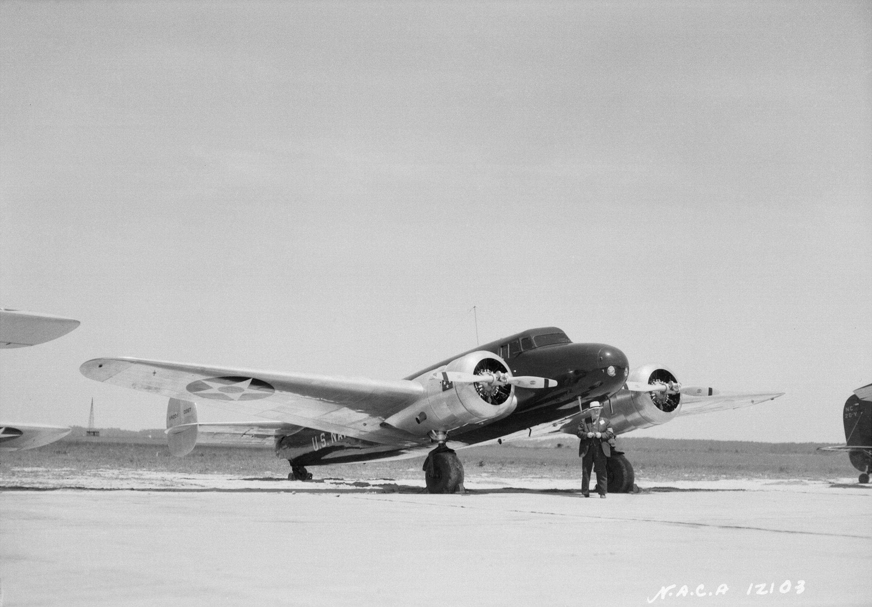 This U.S. Navy XR2O-1 was a Lockheed Electra 10A used by the Secretary of the Navy.